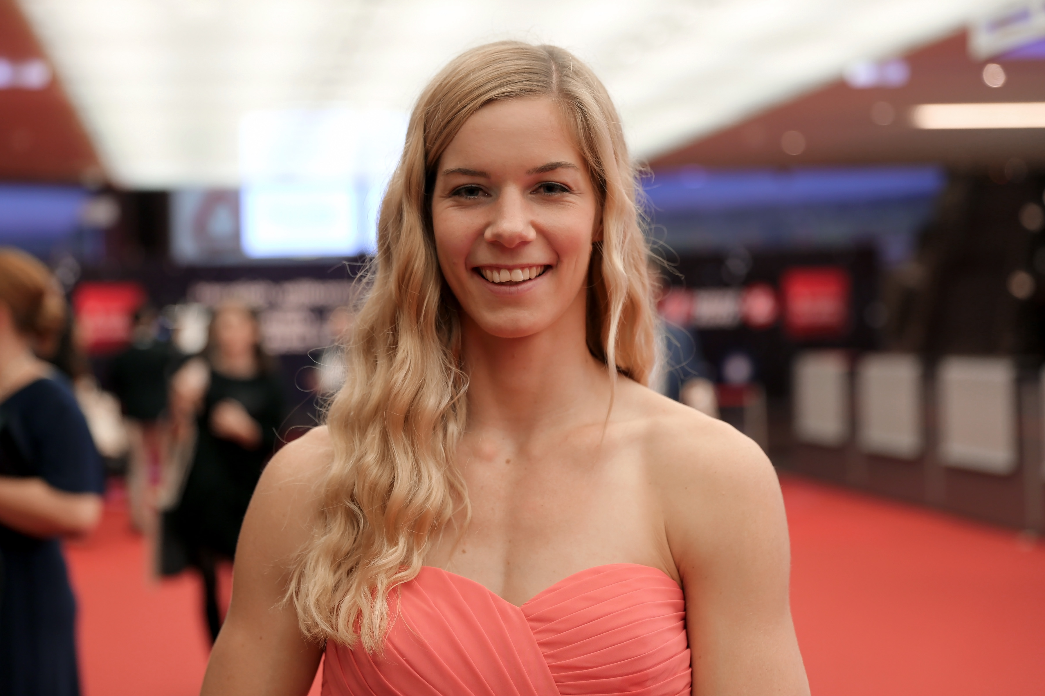 Beate Schrott on the red carpet at the award show for the Austrian Sportspersonalities of the Year 2014 (Austria Center Vienna).